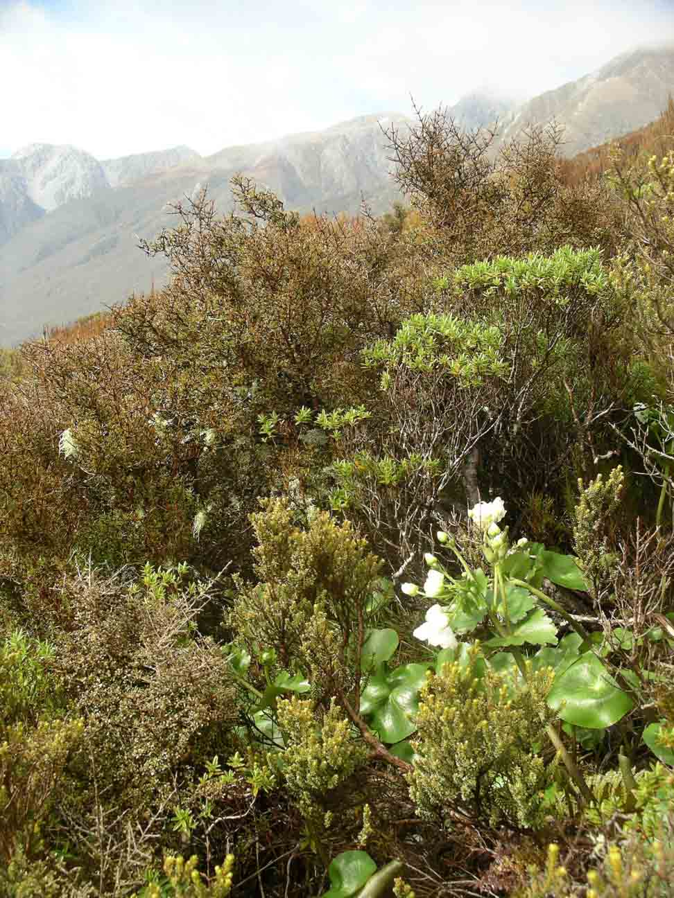 Ranunculus lyallii at Arthur's Pass, New Zealand in situ in arctic/alpine Hebe scrub